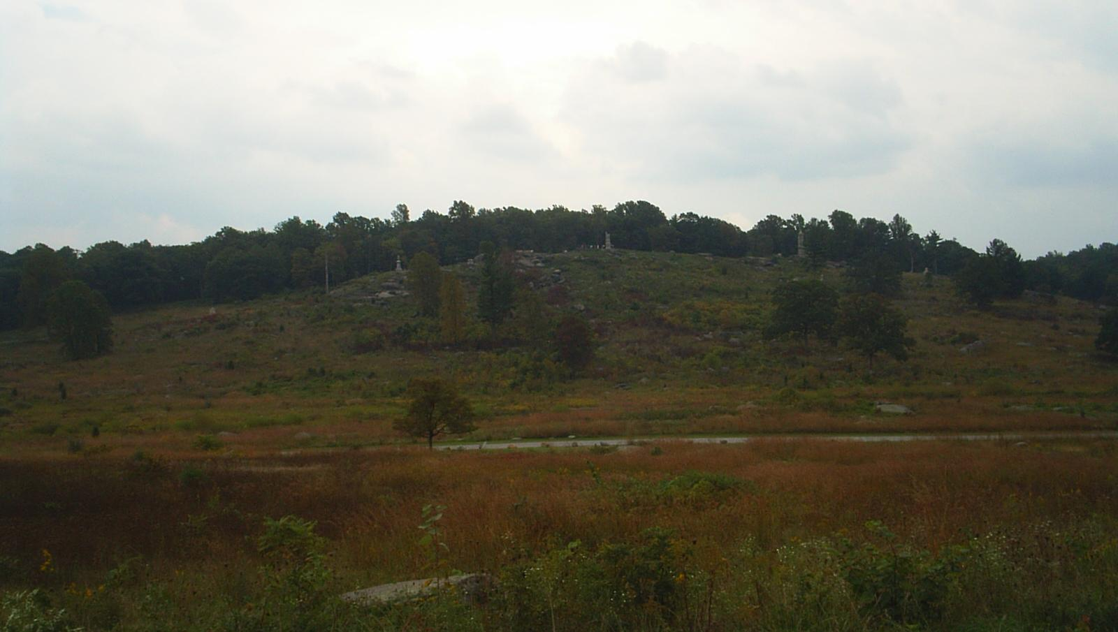 This picture was taken by myself at Gettysburg with a digital camera.